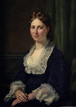 Portrait of Franziska Speyer (1844-1909)